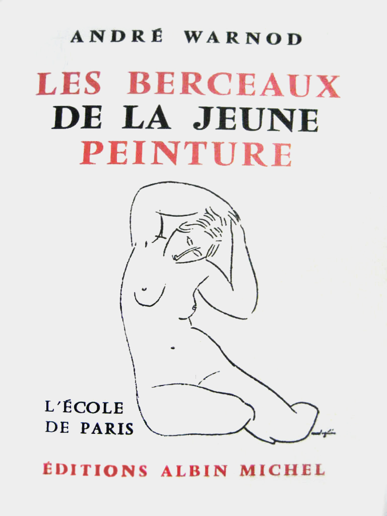 Cover of Les Berceaux de la jeune peinture by André Warnod. Drawing by Amedeo Modigliani (1884-1920)